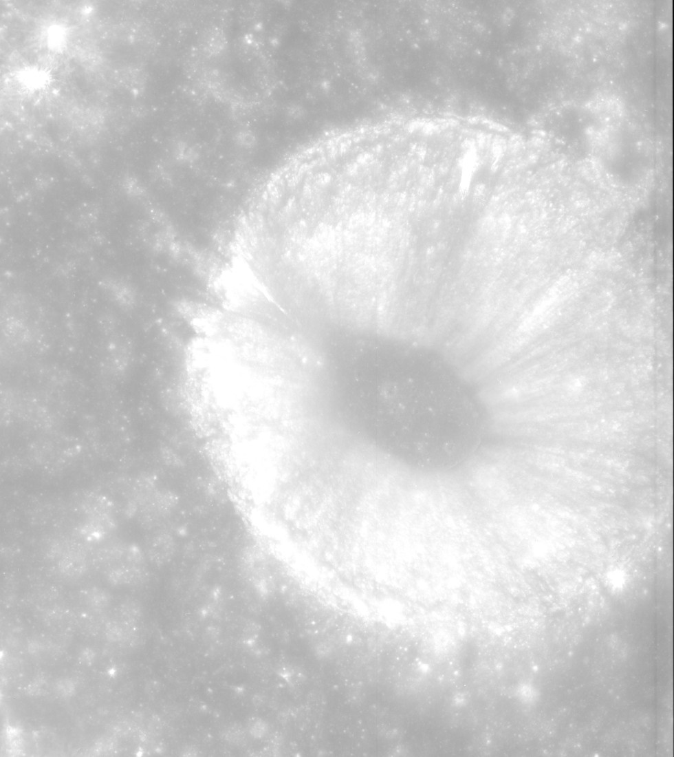 Slightly oblique view of Wildt crater, on the moon. Taken by Apollo 15 panoramic camera.